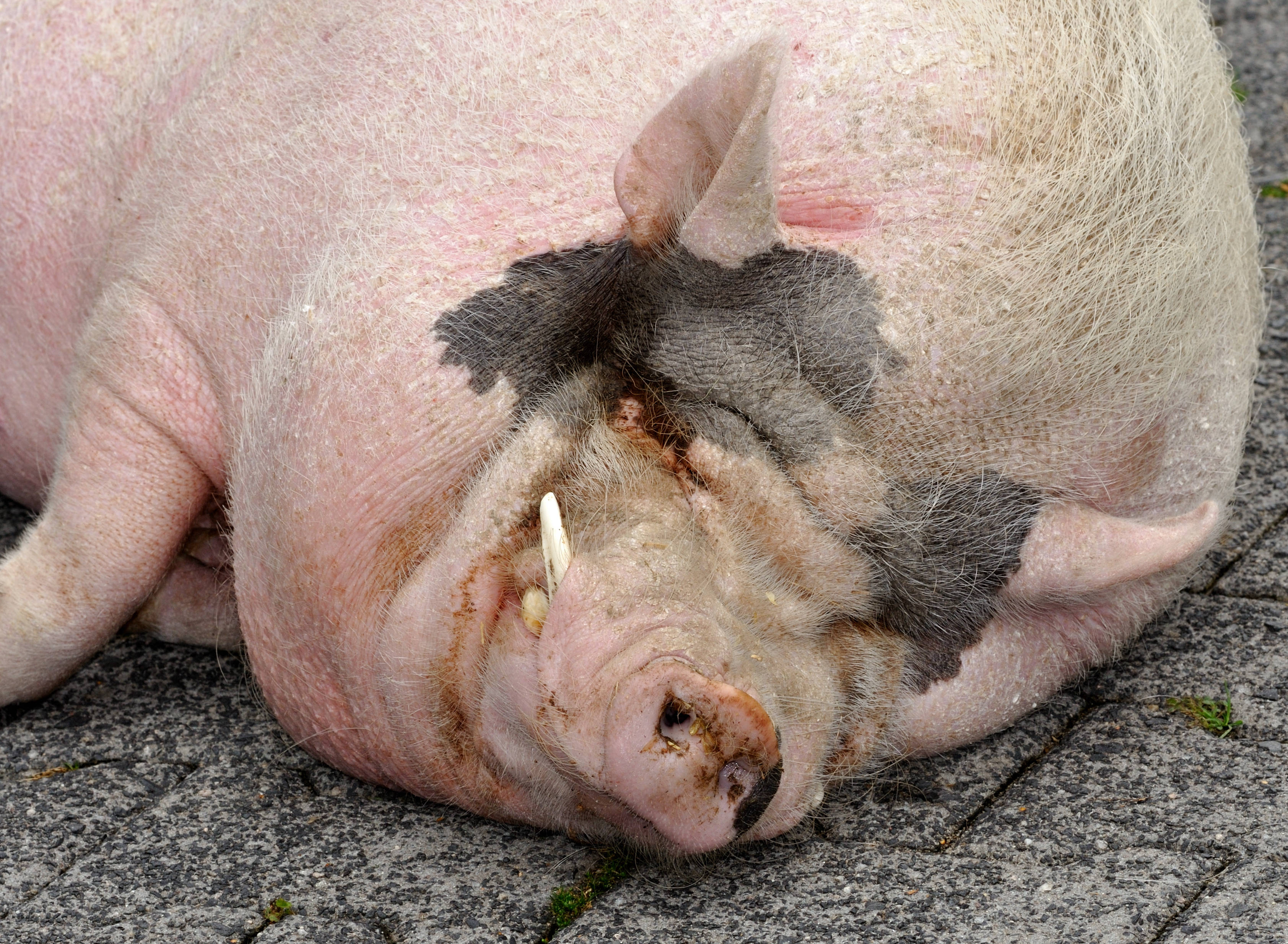 Male Miniature pig (Sus scrofa domesticus) in the Opelzoo, Kronberg/Königstein, Germany.